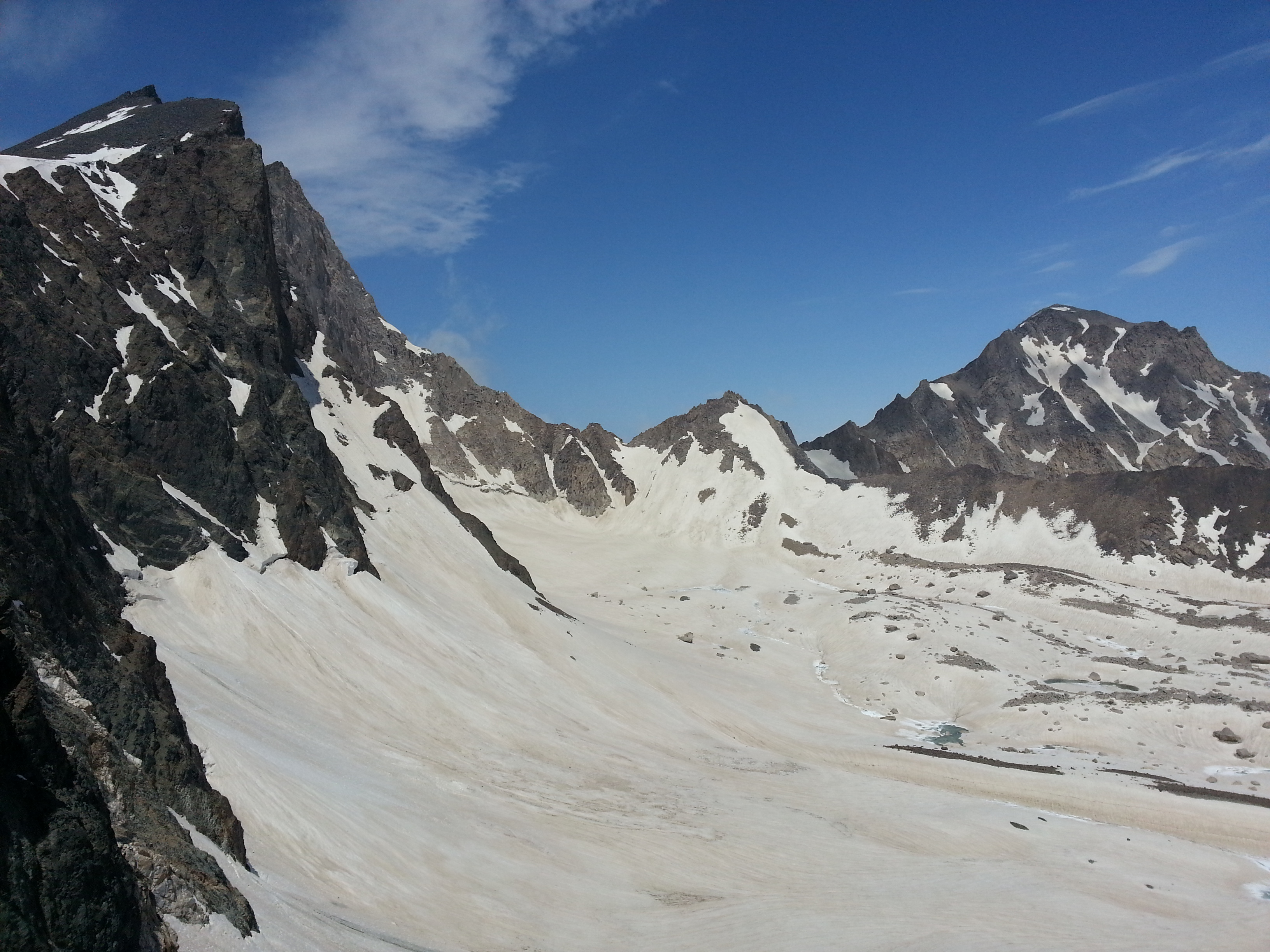 located in Takht-e Suleyman Massif in Alborz Range with 4465 meters height.